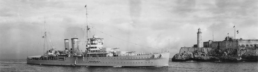 Created from personal photograph in collection of RN CPO(Tel) George A ("Art") Browness, "Sparks" (Wireless Telegraphist) on board HMS York, by Ian Browness, his son. {this version recropped to better match destination table cell on Wiki article }